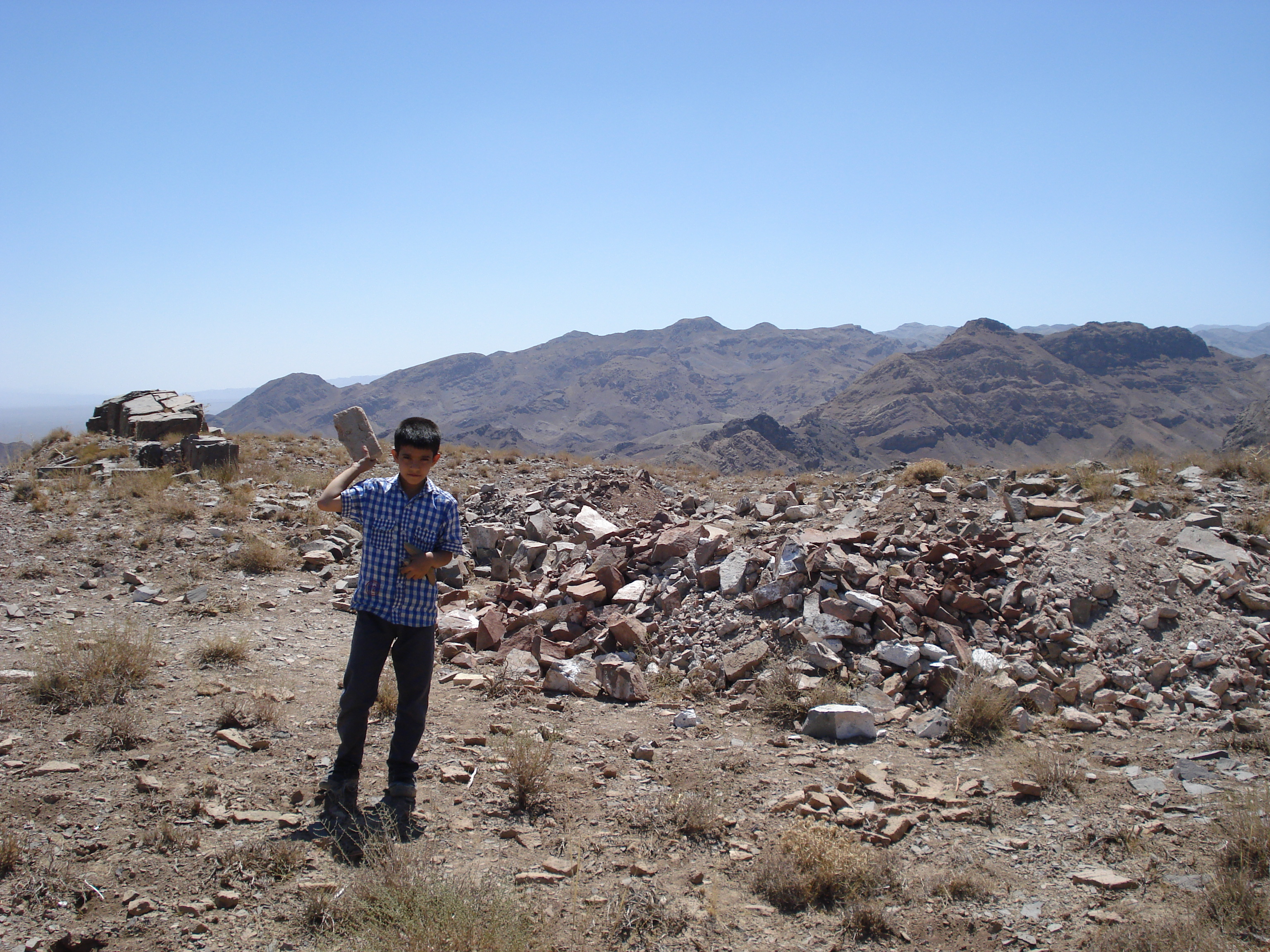 destruction of yazdgerd 3Th last castle in Zibad, Gonabad County, Iran, by thieves